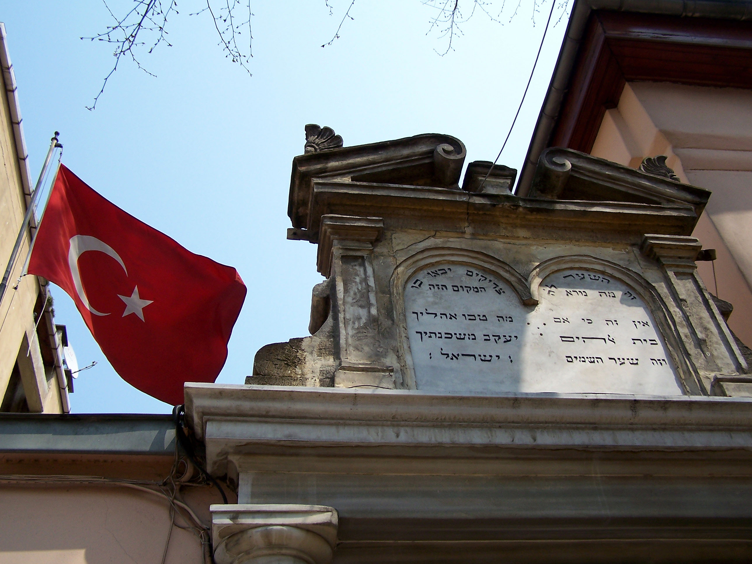 Front inscription of Beth Yaakov Synagogue in Kuzguncuk, Üsküdar, Turkey